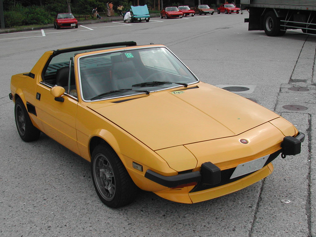 Fiat X1/9 1974 US model in Japan. Owner's web site